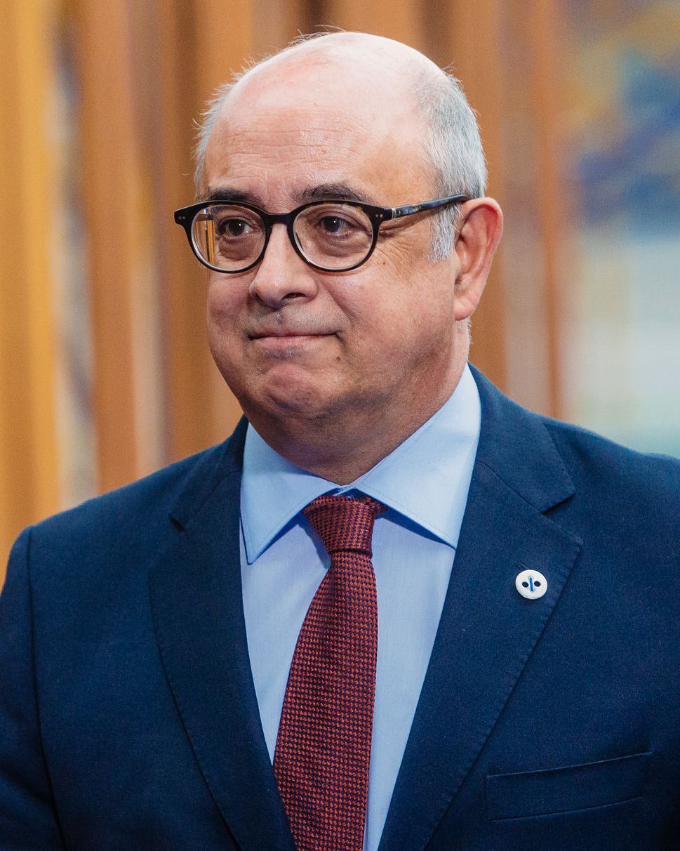 José Azeredo Lopes, Minister, Ministry of Defence Photo: Arno Mikkor (EU2017EE)